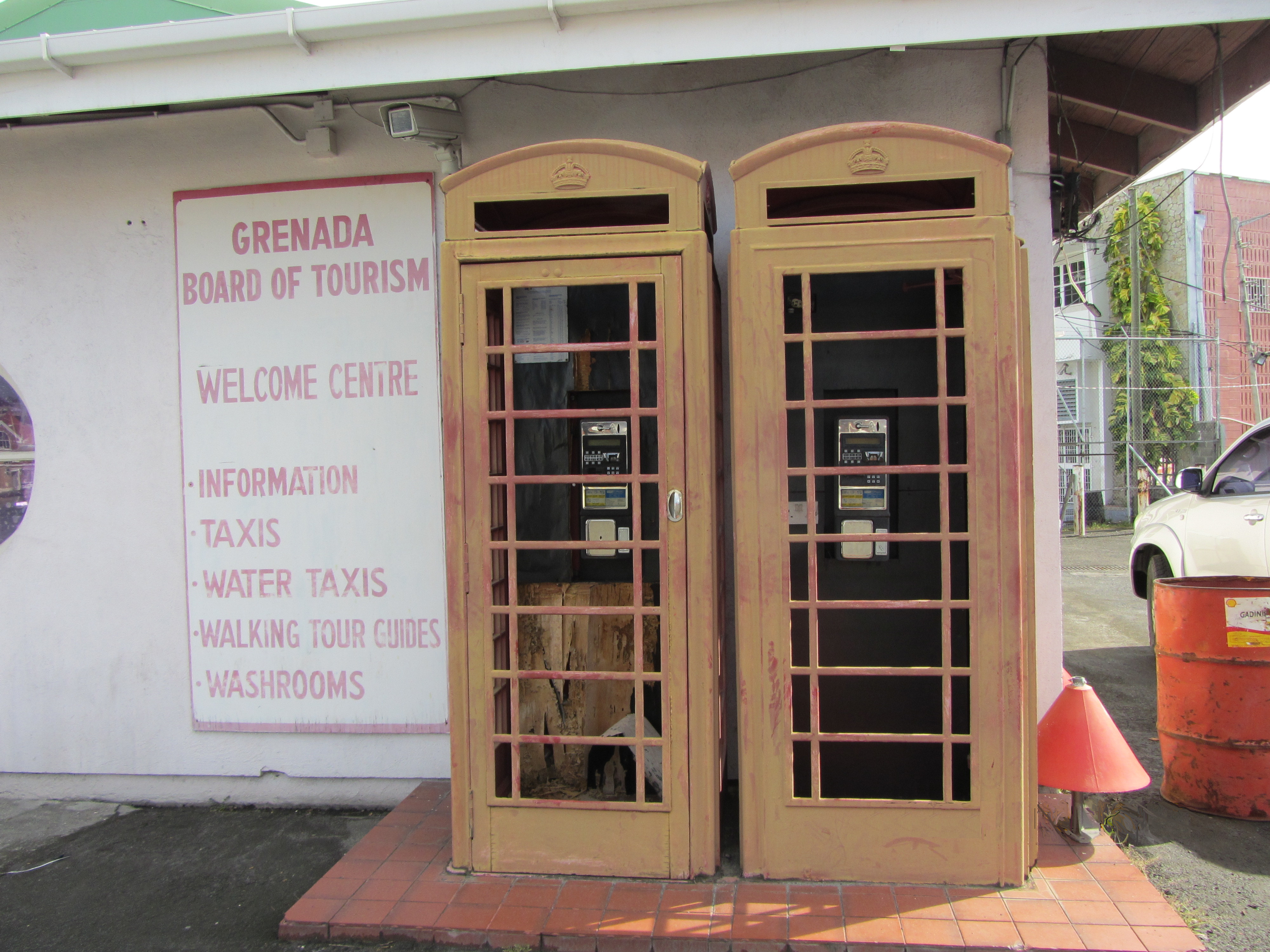 Telephone booths at the Cruise Terminal of St. George's in Grenada